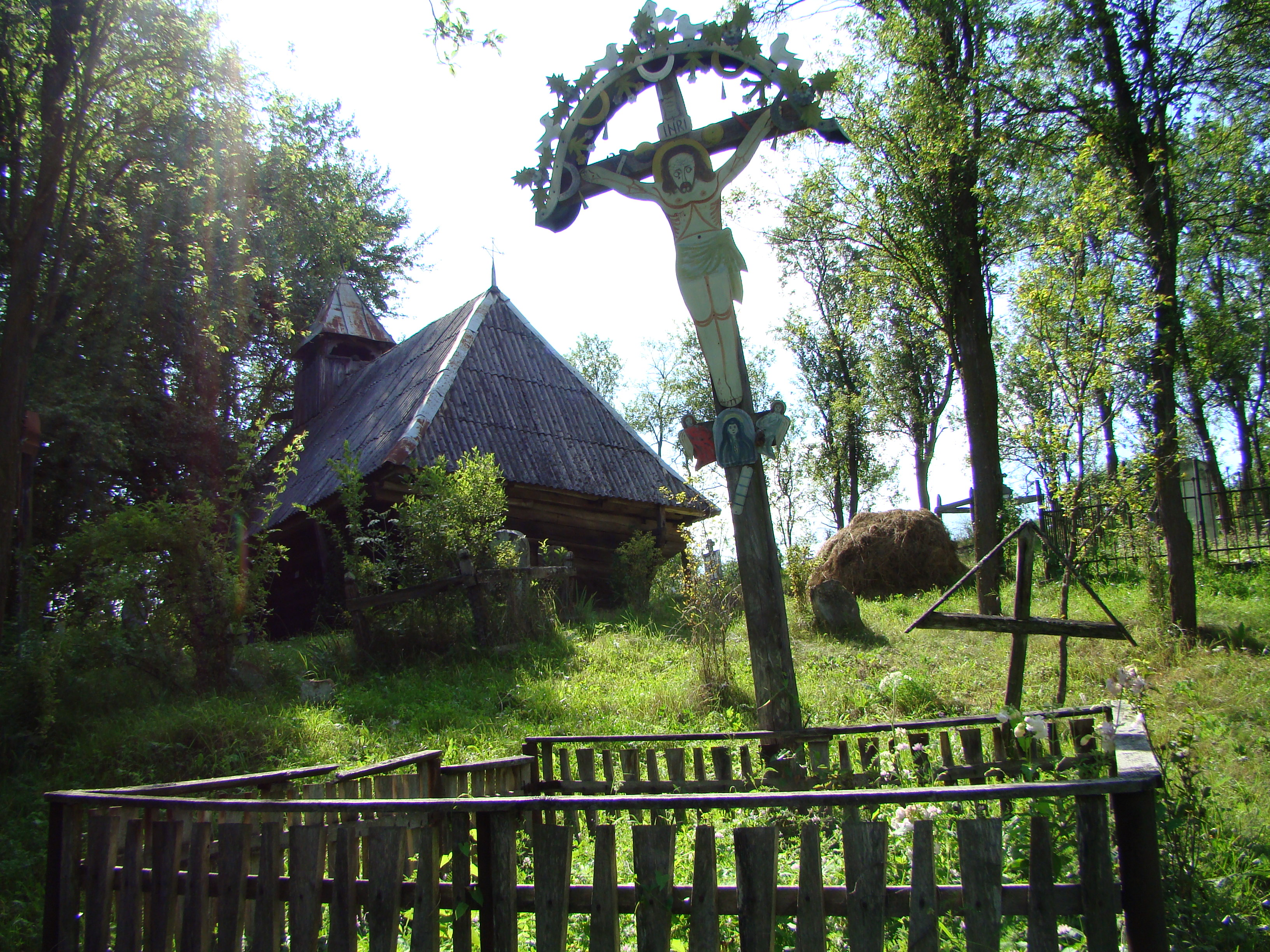 Wooden church in Apatiu, Bistrița-Năsăud county